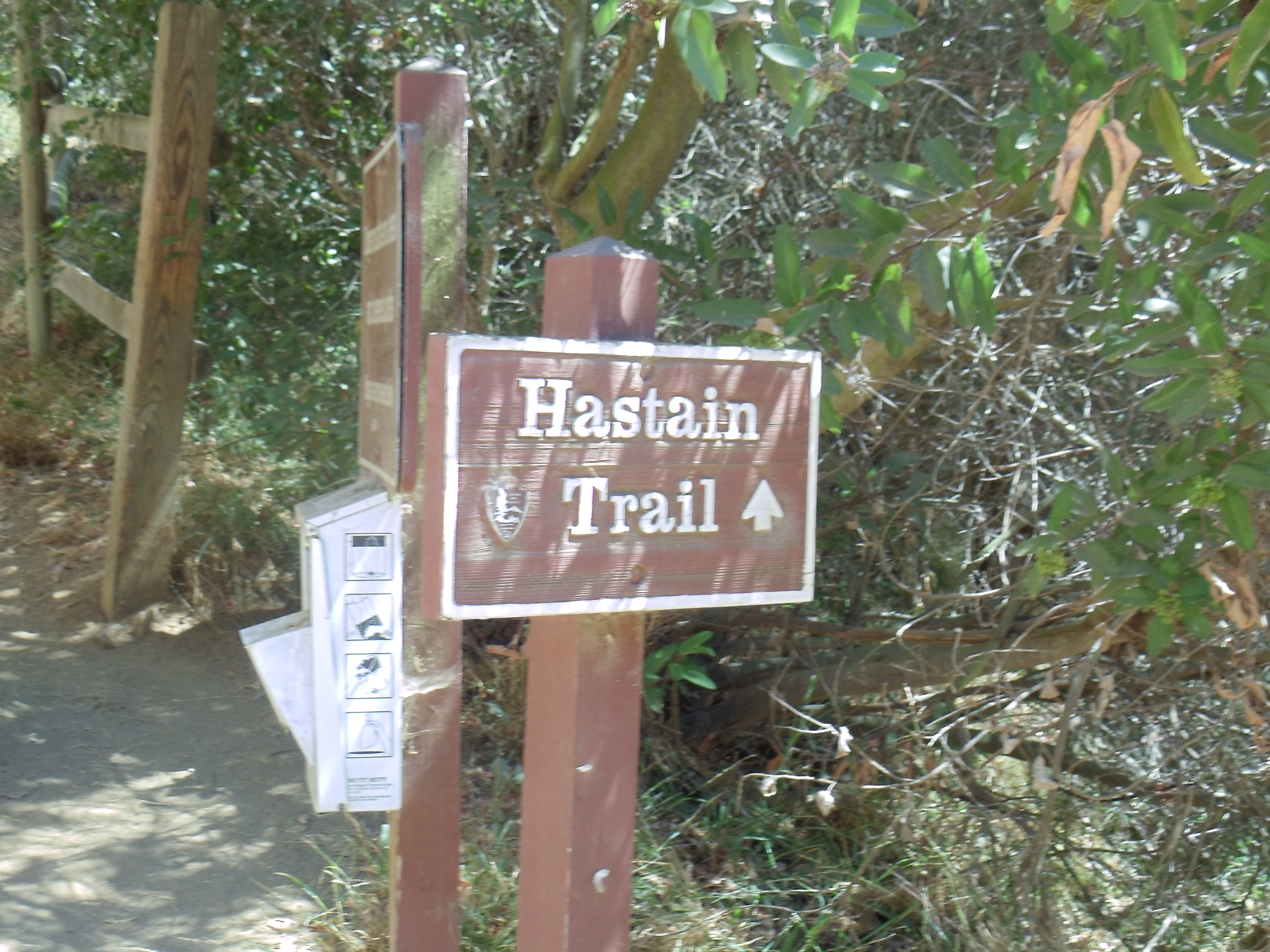 Hastain Trail sign in Franklin Canyon Park, Los Angeles, California